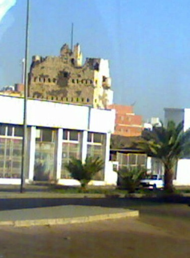 the place that Al-Ansar welcome prophet mohammad when he came from Makkah